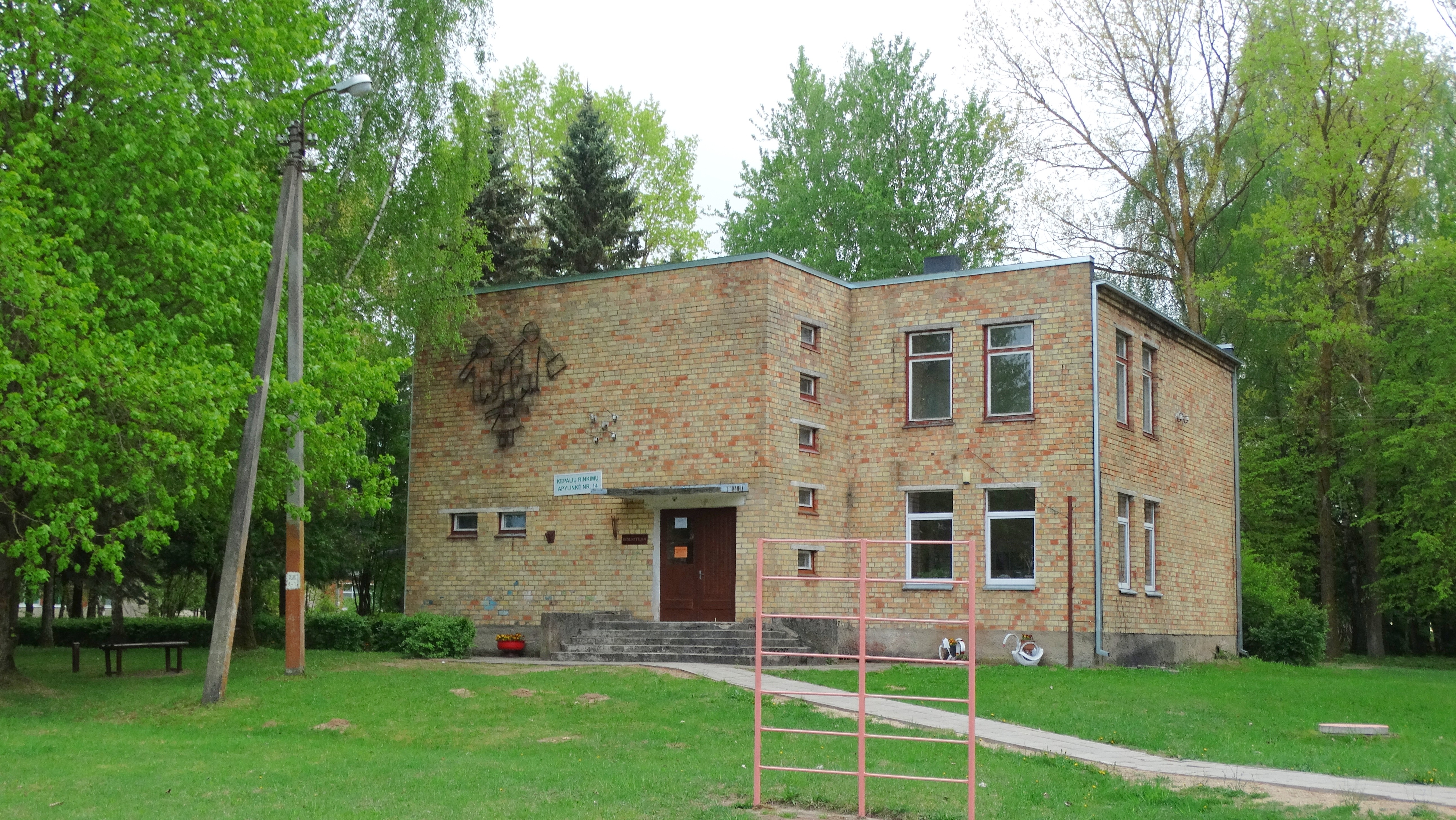 Kepaliai, Joniškis district, Lithuania